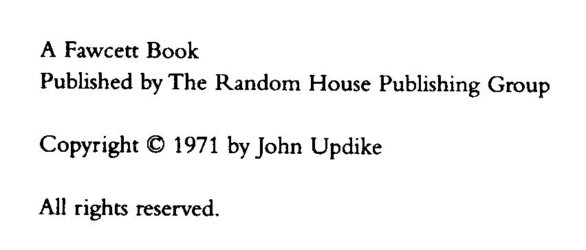 Example of a copyright notice complying with the 1901 Copyright Act